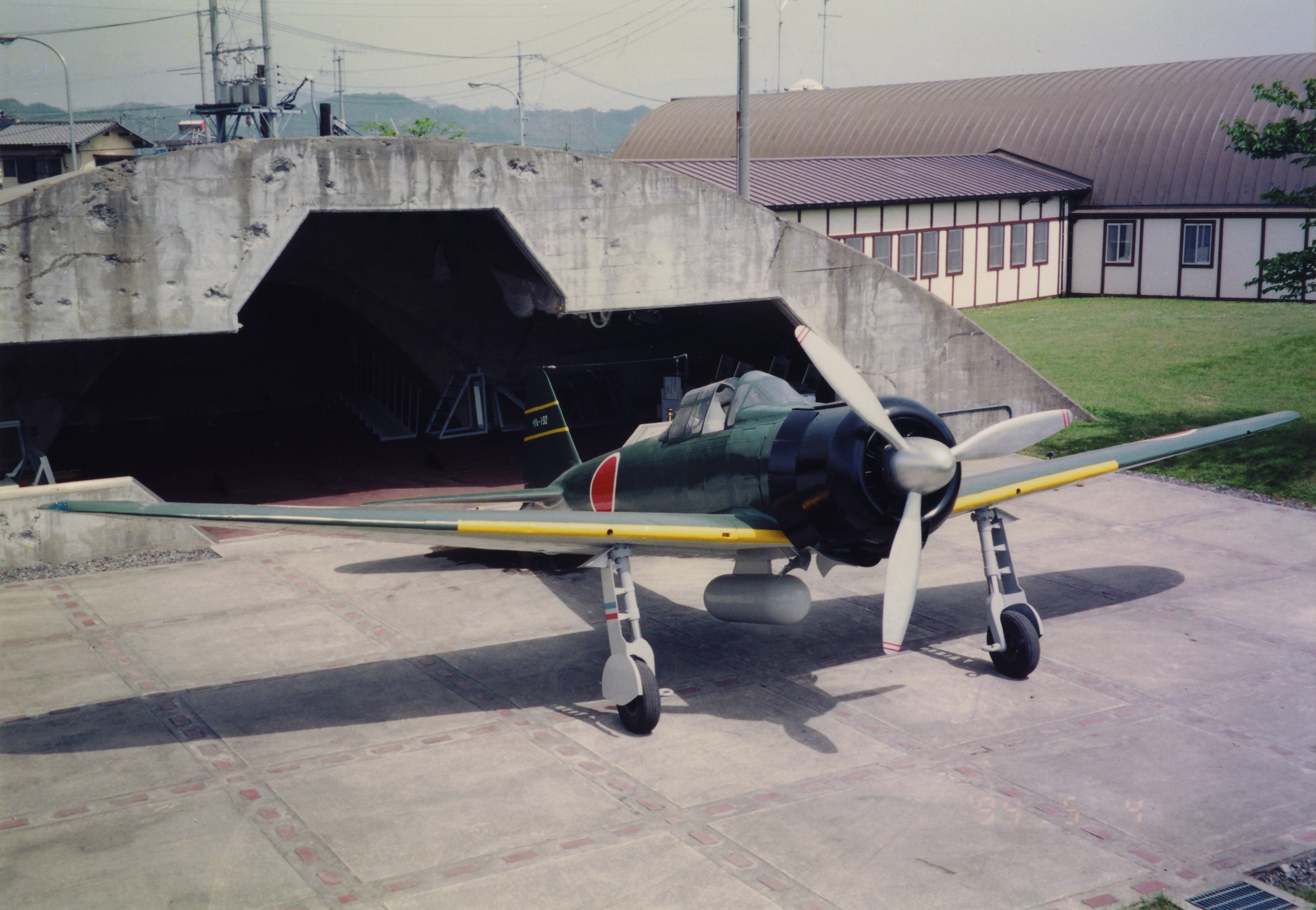 The replica Mitsubishi Type 0 Carrier Fighter sits in front of the Zero Hangar here May 4, 1993. The Zero was a long range fighter aircraft used by the Japanese Imperial Army from 1940 to 1945. The shrapnel-scarred Zero Hangar across the street from the Provost Marshal’s Office here is one of the last few reminders on the air station of the presence the Zero had during the last world war.